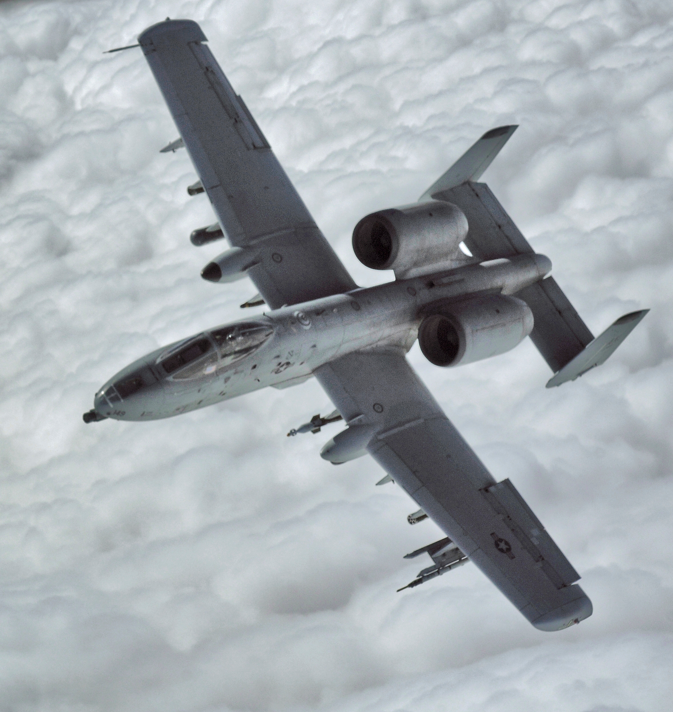 An OA/A-10 Thunderbolt II observation / attack aircraft about to return to a low level close air support mission below, after completing an air refueling with a KC-135R/T on 26 March 2006. The aircraft and pilot are deployed to the 355th Expeditionary Fighter Squadron, Bagram Air Base, Afghanistan, from the 355th Fighter Squadron, Eielson, Air Force Base Alaska. The KC-135R/T is deployed to the 22 Expeditionary Air Refueling Squadron, Manas Air Base, Kyrgyz Republic, from the 92nd Air Refueling Wing, Fairchild Air Force Base, Wash. (U.S. Air Force photo by Master Sgt. Lance Cheung)